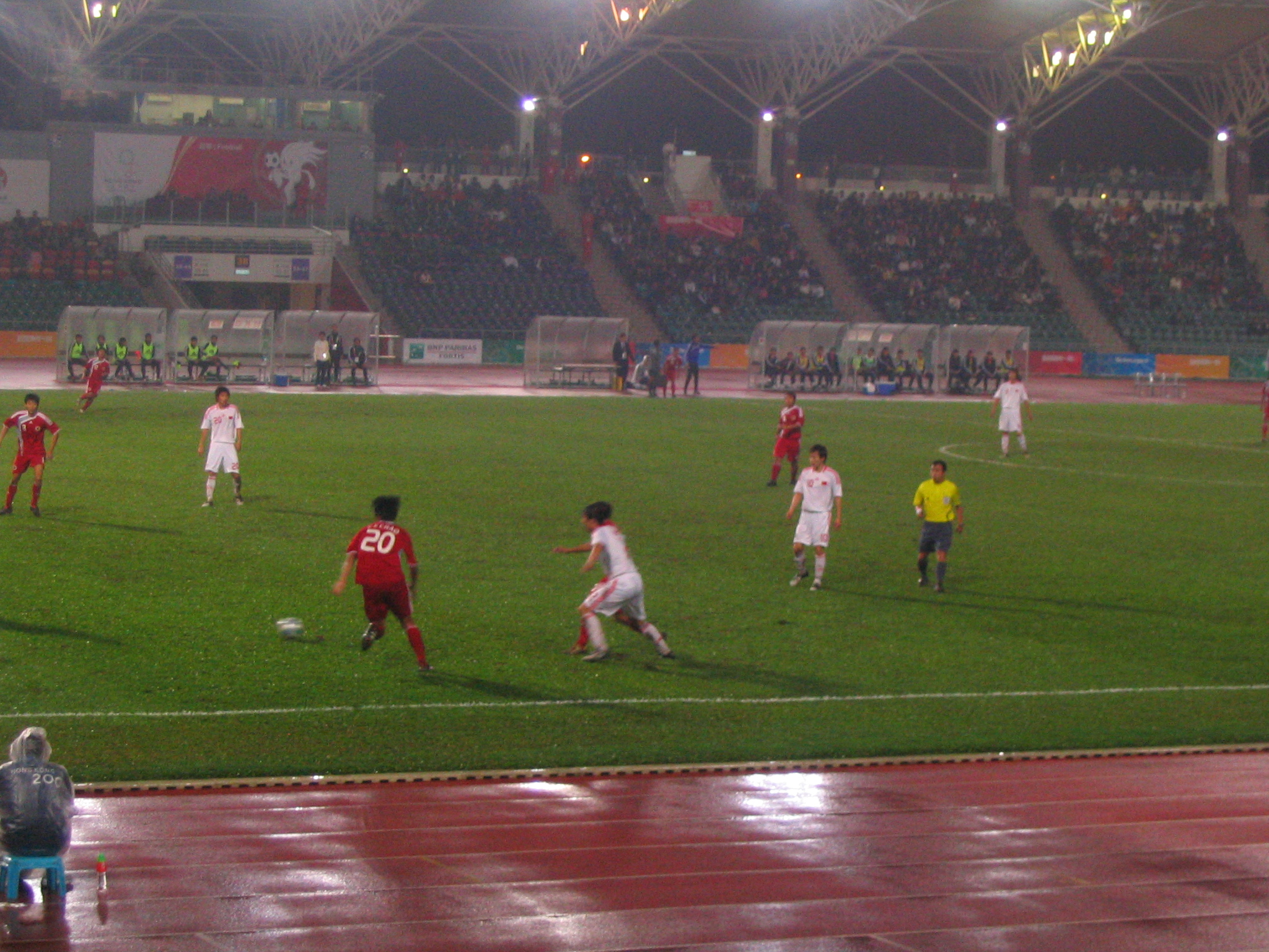 2009 East Asian Games at Siu Sai Wan Sports Ground, Hong Kong versus China.